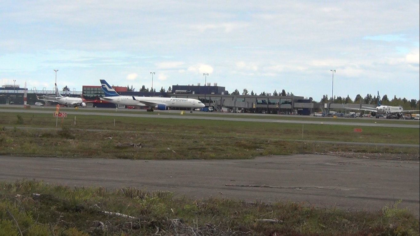 The new side of the terminal of Oulu airport